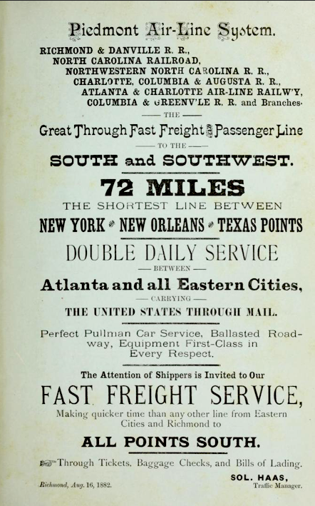 Piedmont Air Line System advertisement 1882 showing component lines.